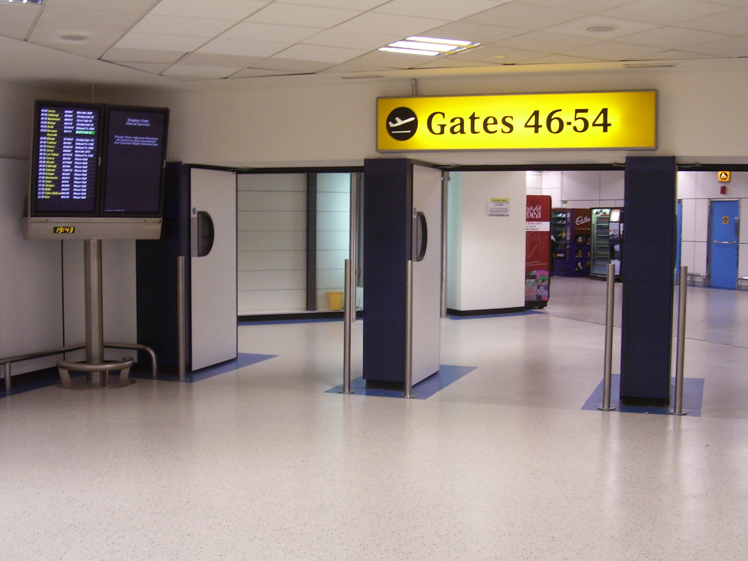 Gatwick's North Terminal gate area/flight info screens.